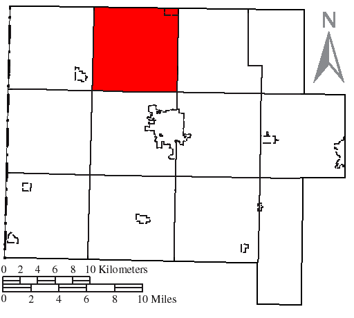 Made by the US Census and modified by myself